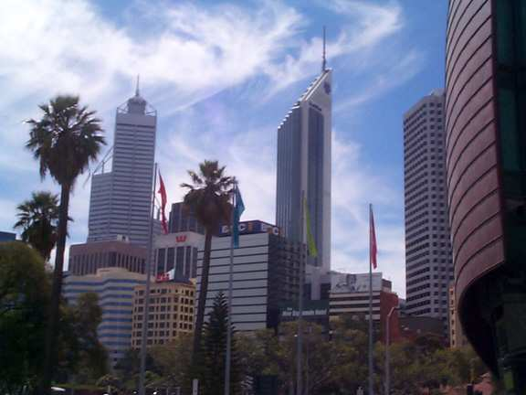 The Perth city skyline from the Swan Bells.